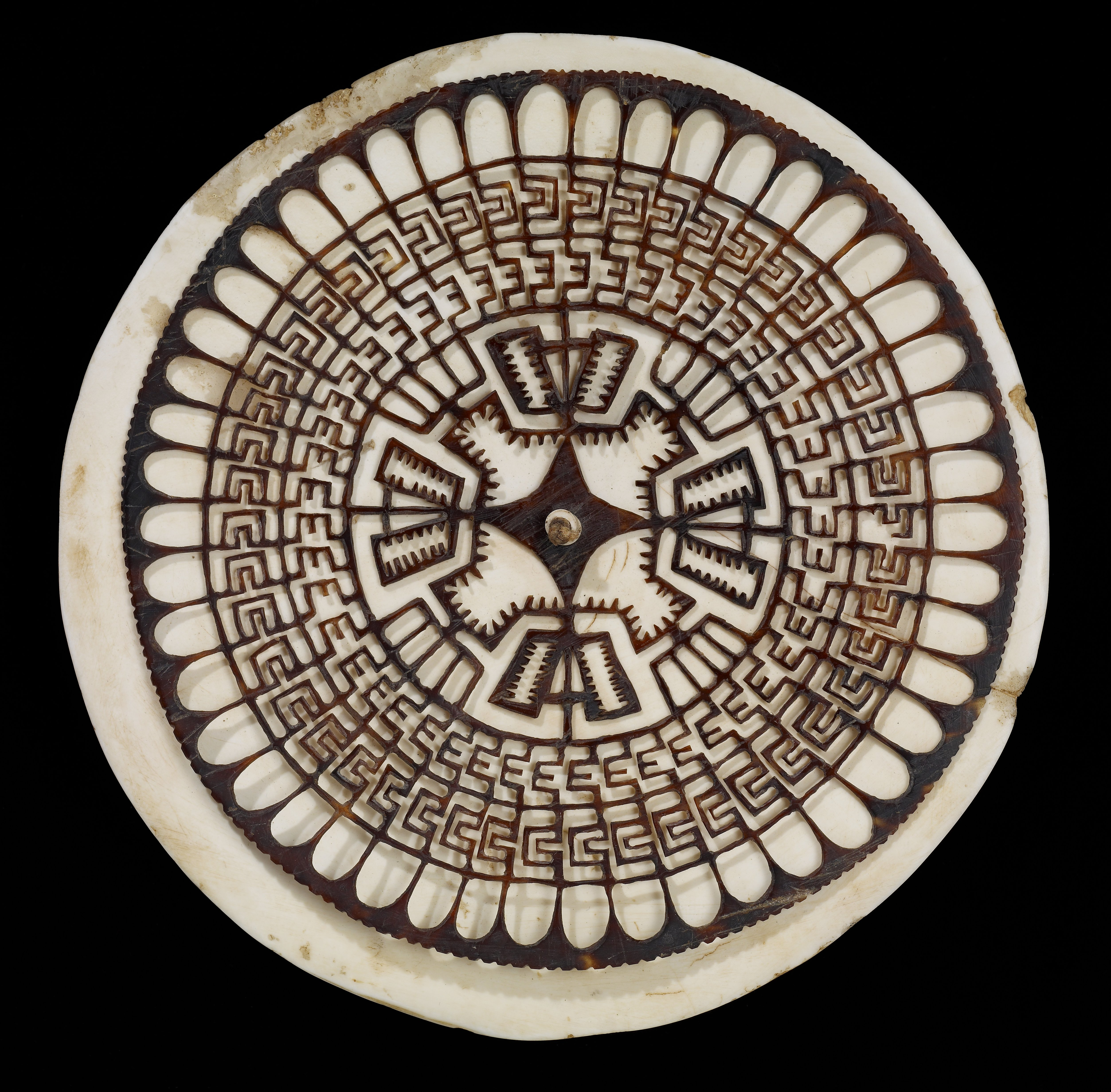 Kapkap, 19th century Unknown artist, Solomon Islandse Clam shell, tortoise shell, cord, shell beads The Walter R. Bollinger Fund 99.4 G256e Kapkap were worn as pendants, and forehead or belt ornaments by men in the Solomon Islands. Worn in battle and at festivals, these ornaments symbolized personal wealth and status. The size and quality of a man's kapkap generally indicated his social status-the bigger the size, the more valuable it was. The white disk is ground from the shell of the Tridacna, a large sea clam, which was also used for money. The brown inner disk was carved from boiled tortoiseshell and attached to the other half of the ornament by a beaded string. The addition of beads further increased its value and prestige. Kapkap from the Solomon Islands were traded throughout Melanesia, and are still highly valued today for their beauty and use as exchange goods. The openwork design on the largest kapkap represents a frigate bird, a popular symbol of strength. The design on the twentieth century kapkap may be purely decorative or may relate to the mataling, "eye of fire," found on other sculptures from the region.